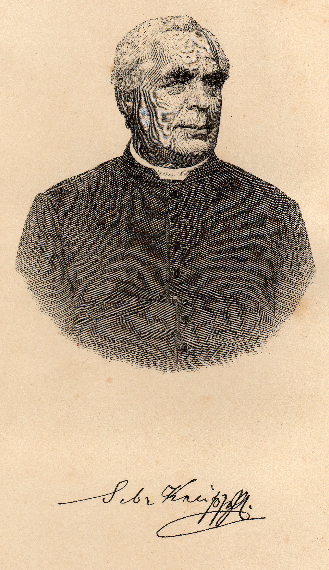 Portrait of Sebastian Kneipp